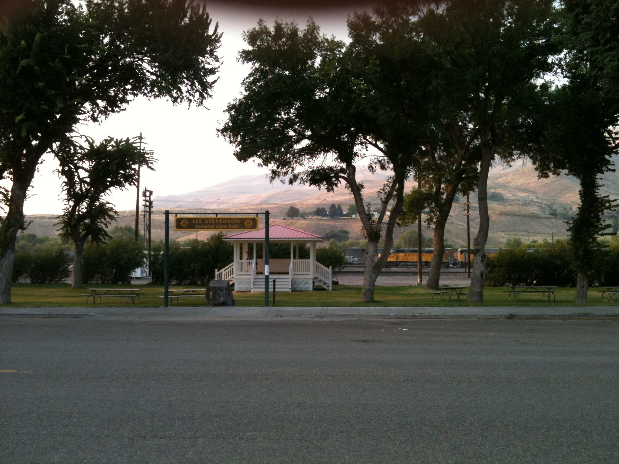 Huntington, OR, facing north on Main St.